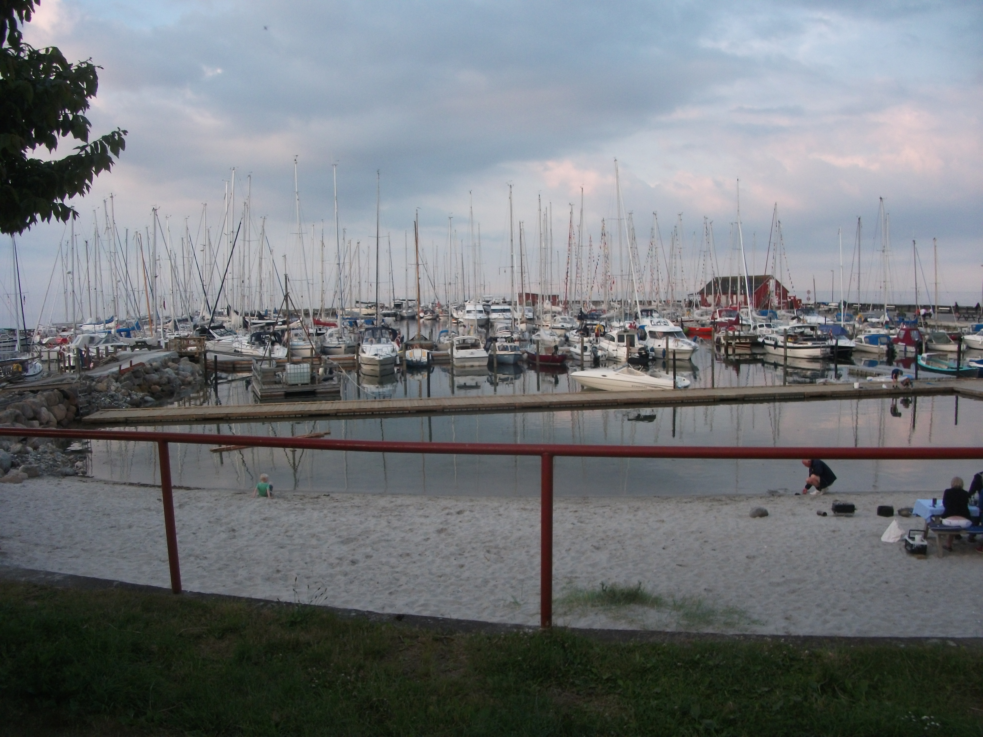 Marina, Ballen Denmark